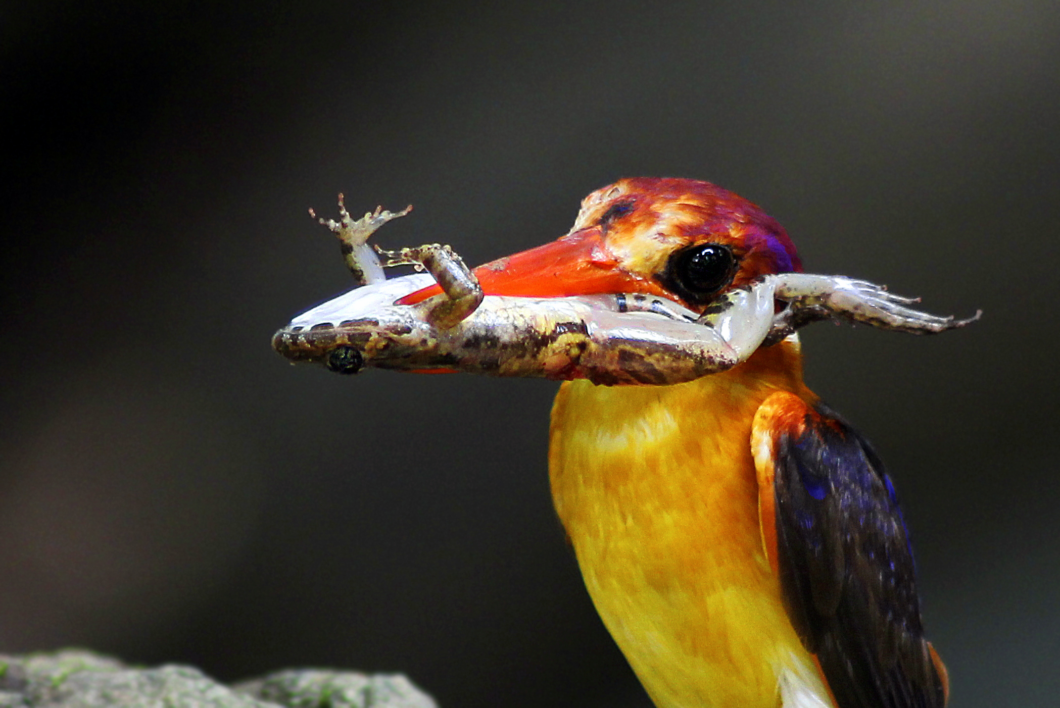 What's there for lunch today?